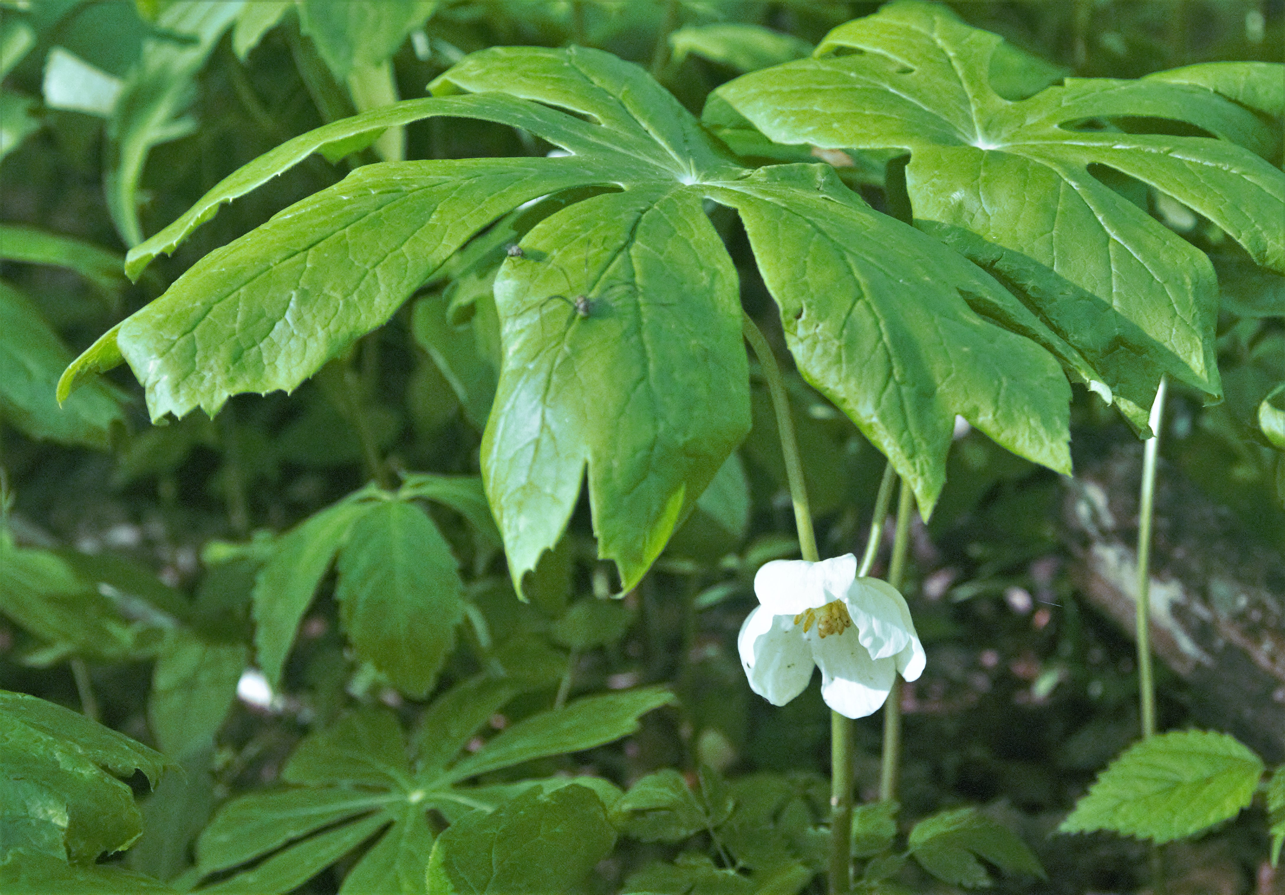 spring flower, May Apple, photographed along the Appalachian Trail in the Thunder Ridge Wilderness, Virginia